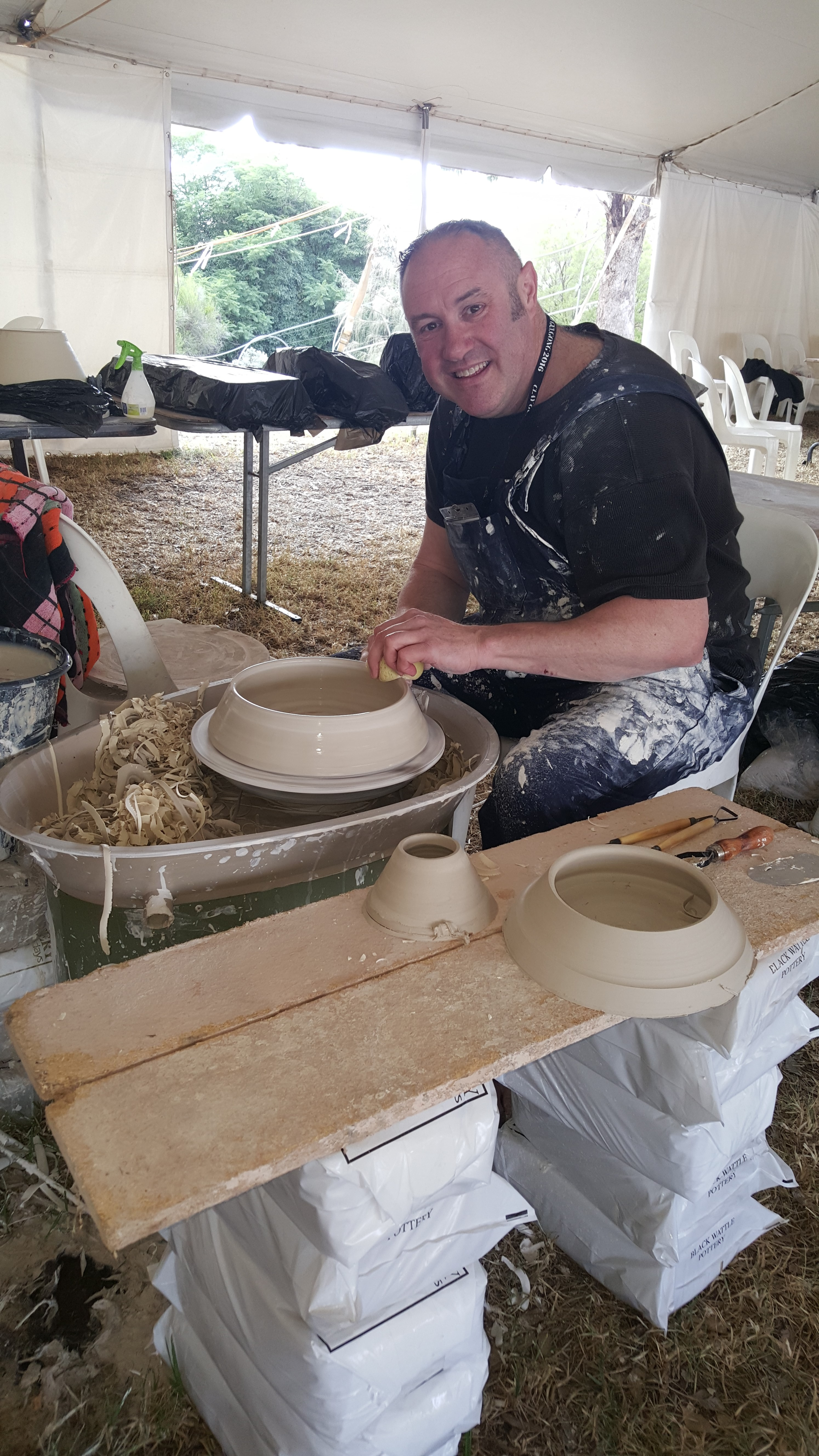 Keith Brymer Jones on wheel at Clay Gulgong 2016 (Triennial ceramics festival in Gulgong, NSW)